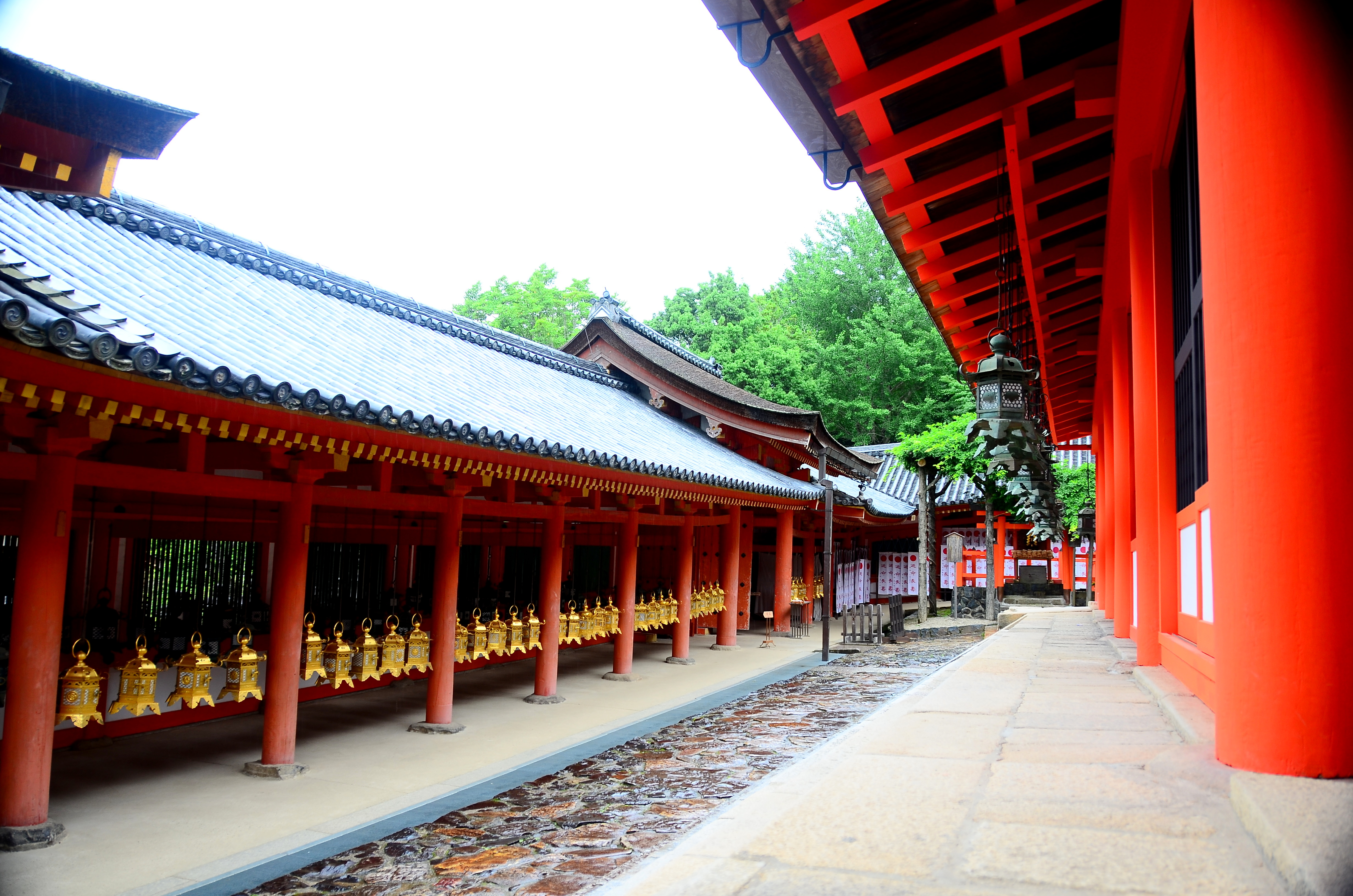 Kasuga-taisha shrine in Nara